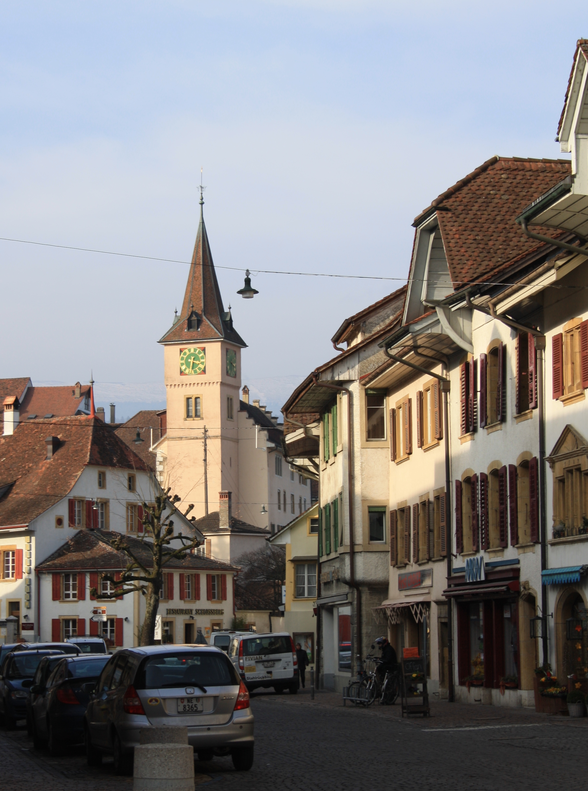 The basic school of Erlach, Switzerland